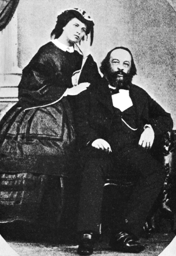 Mikhail (Michail) Bakunin and his wife Antonia Kwiatkowska